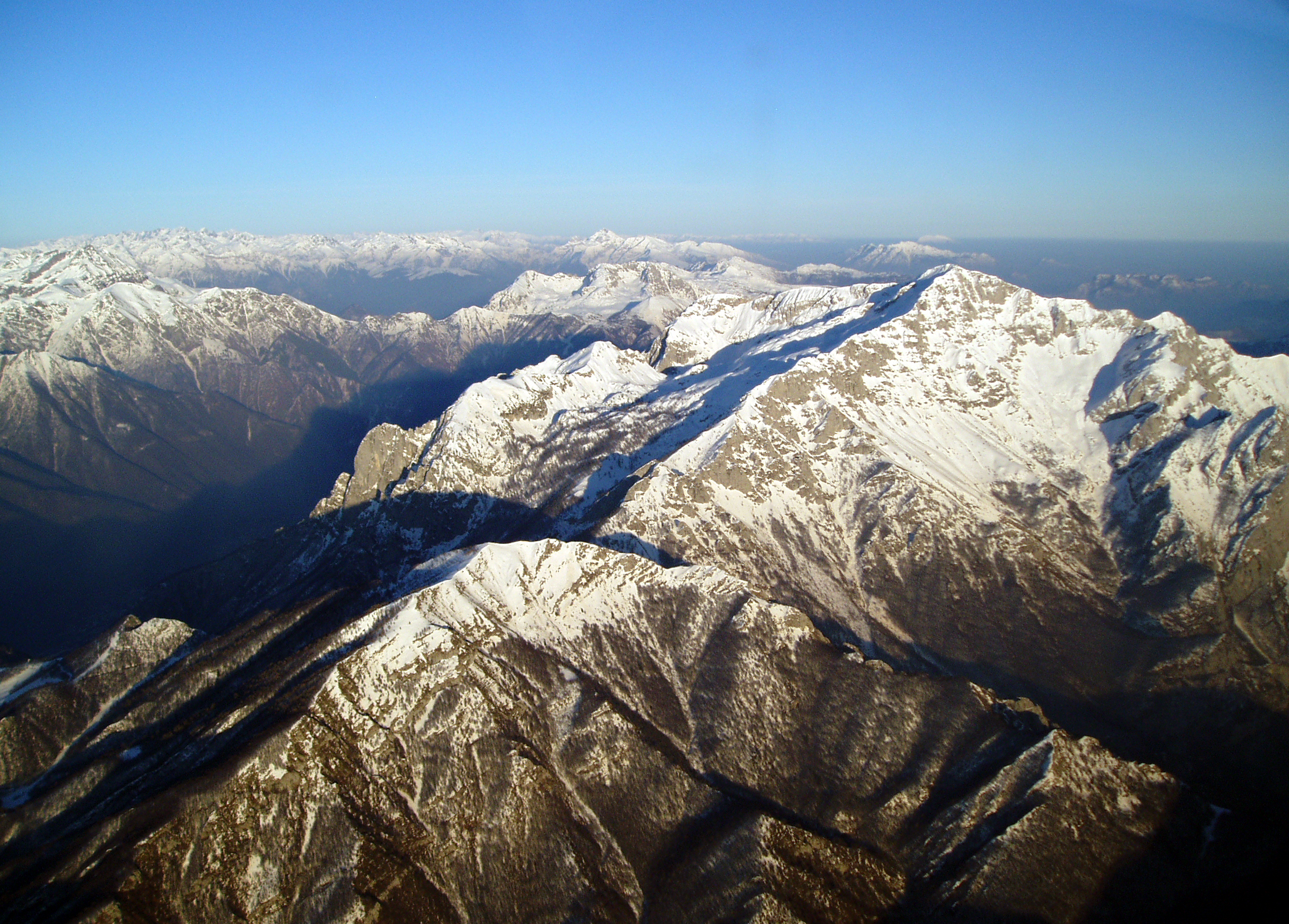 Images of Esino Lario and Grigna Settentrionale. Courtesy Archivio Pietro Pensa, photo by Carlo Maria Pensa.